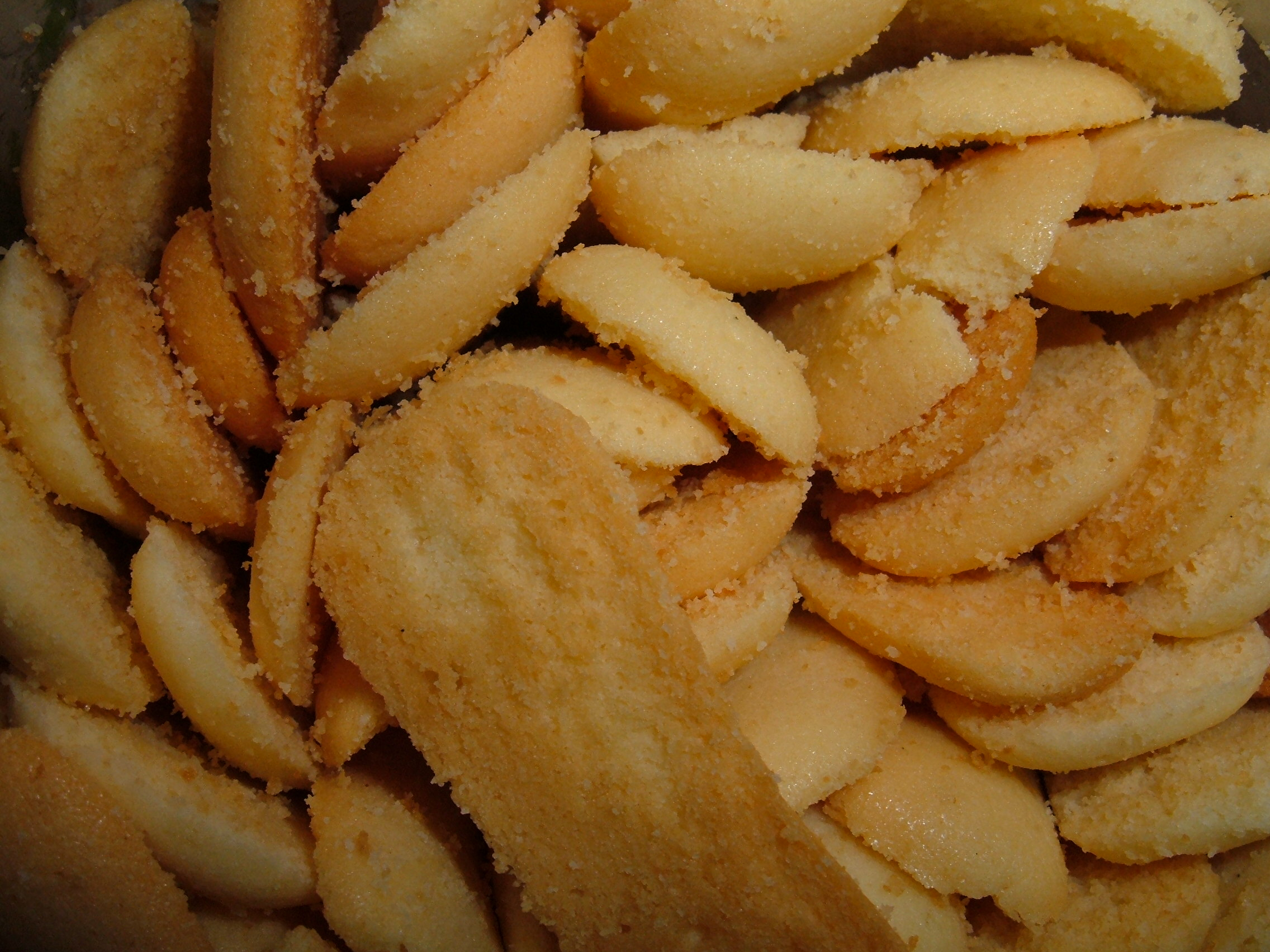 Lengua de gato or "cat's tongue", a small biscuit-like snack from the Philippines.